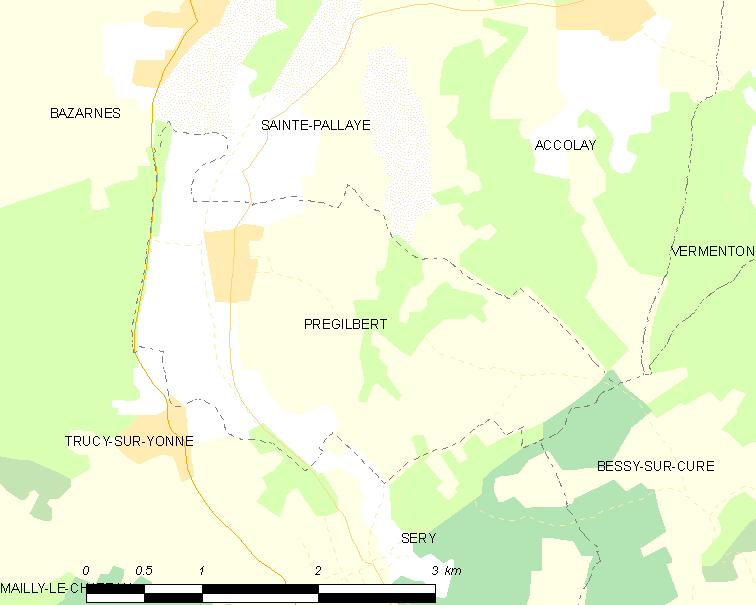 Map of French municipality Prégilbert